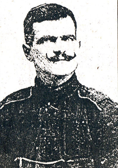 Portrait of Rusi Dimitrov, IMARO member and bulgarian soldier